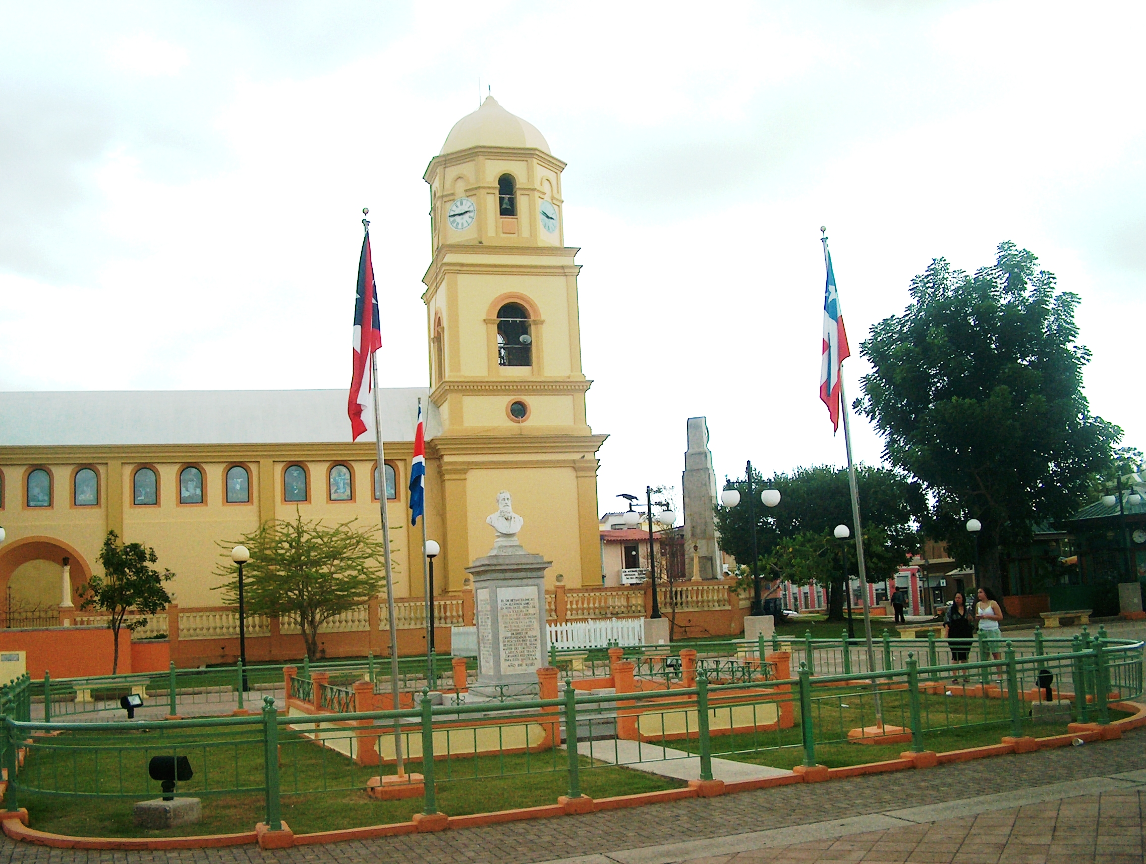 Photo of the tomb Ramón Emeterio Betances.